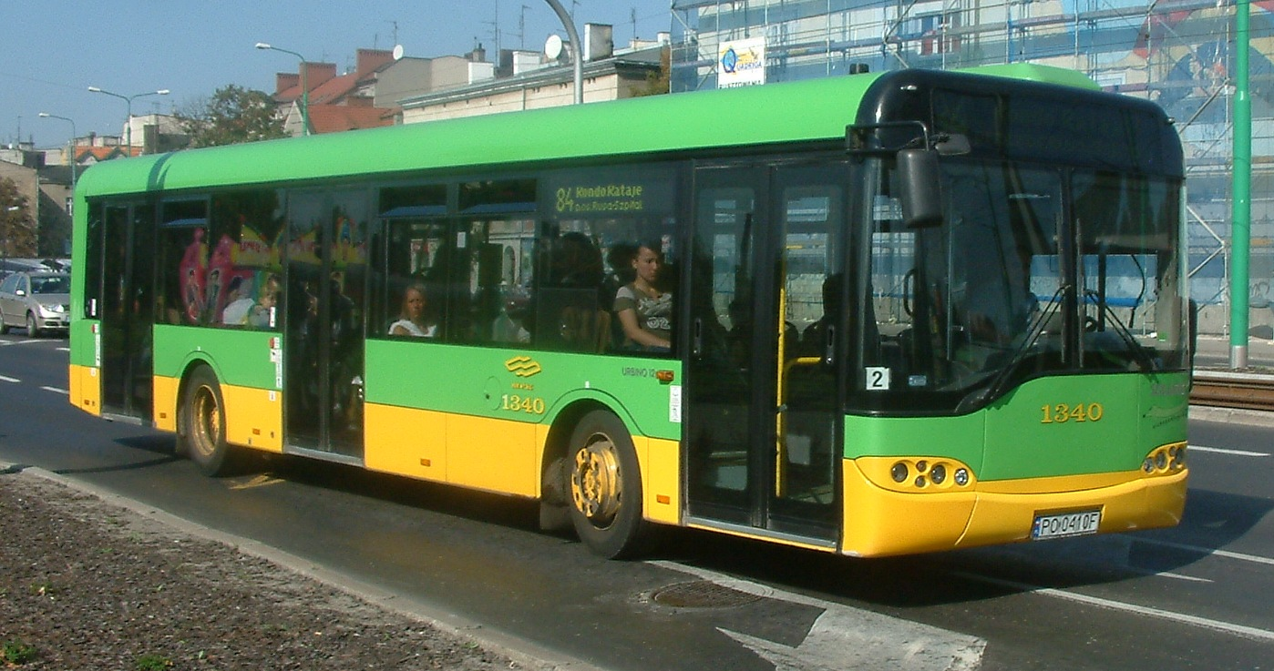 Solaris Urbino 12 (#1340) in Poznań, Poland. Built 2002, MPK Poznań operator.